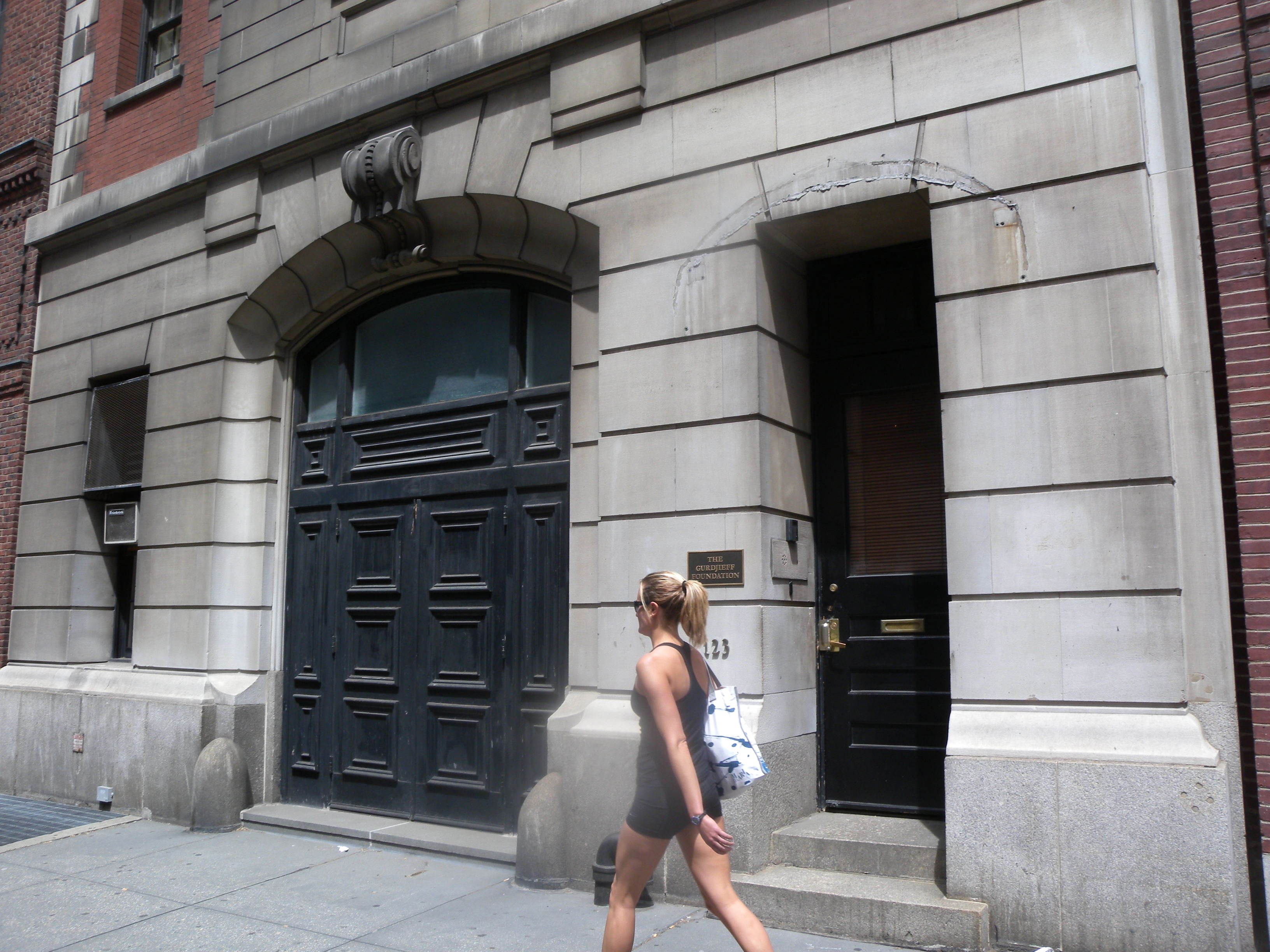 Looking north at front door on a mostly sunny midday.